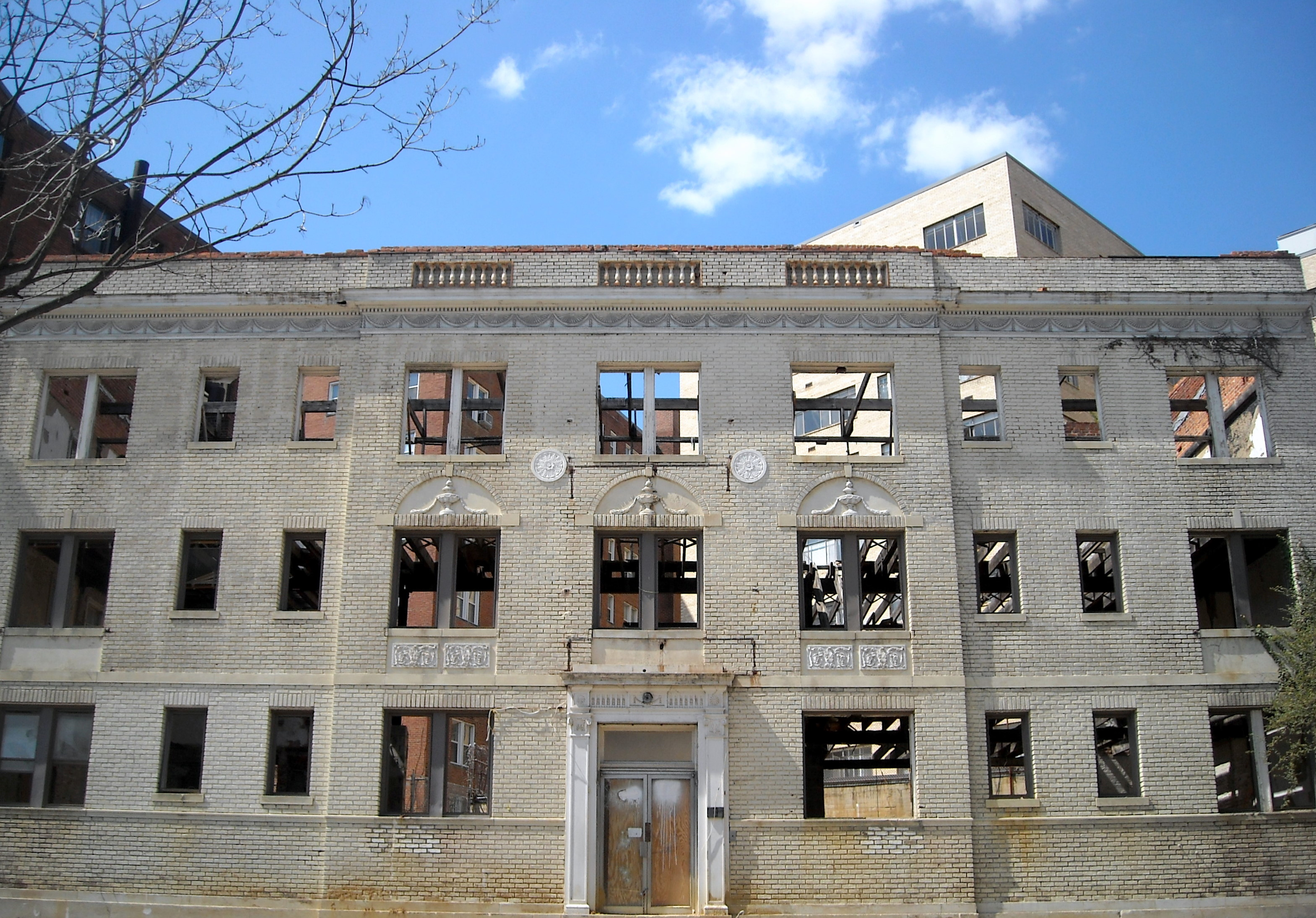 The brick facade of The Hilltop apartment building, located at 2110 19th Street, N.W., in the Adams Morgan neighborhood of Washington, D.C. Built in 1923 by Moore & Hill, Inc., the Classical Revival-style, three-story structure is designated as a contributing property to the Washington Heights Historic District, listed on the National Register of Historic Places in 2006. Since this photograph was taken, the building has undergone extensive restoration. After the renovations are completed, the property will operate as a 35-unit apartment house named The Asher.